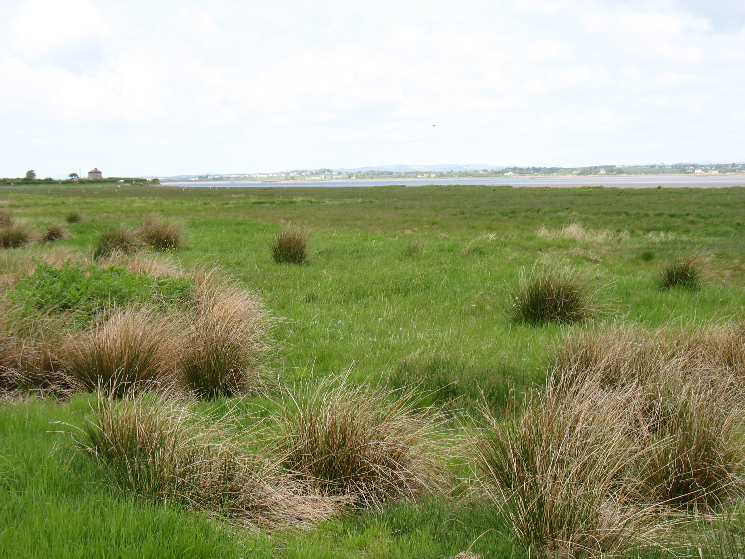 Bowness Marsh and Bowness Wath